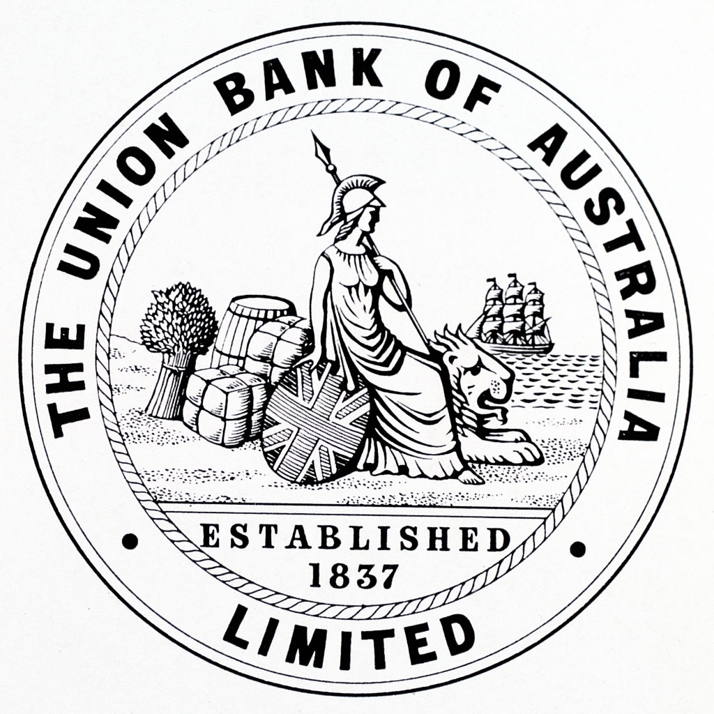 Seal of the Union Bank of Australia Limited, established 1837 in London. The Bank was operating in Australia and in New Zealand until 1951 and amalgamated with Bank of Australasia to Australia and New Zealand Bank Limited.